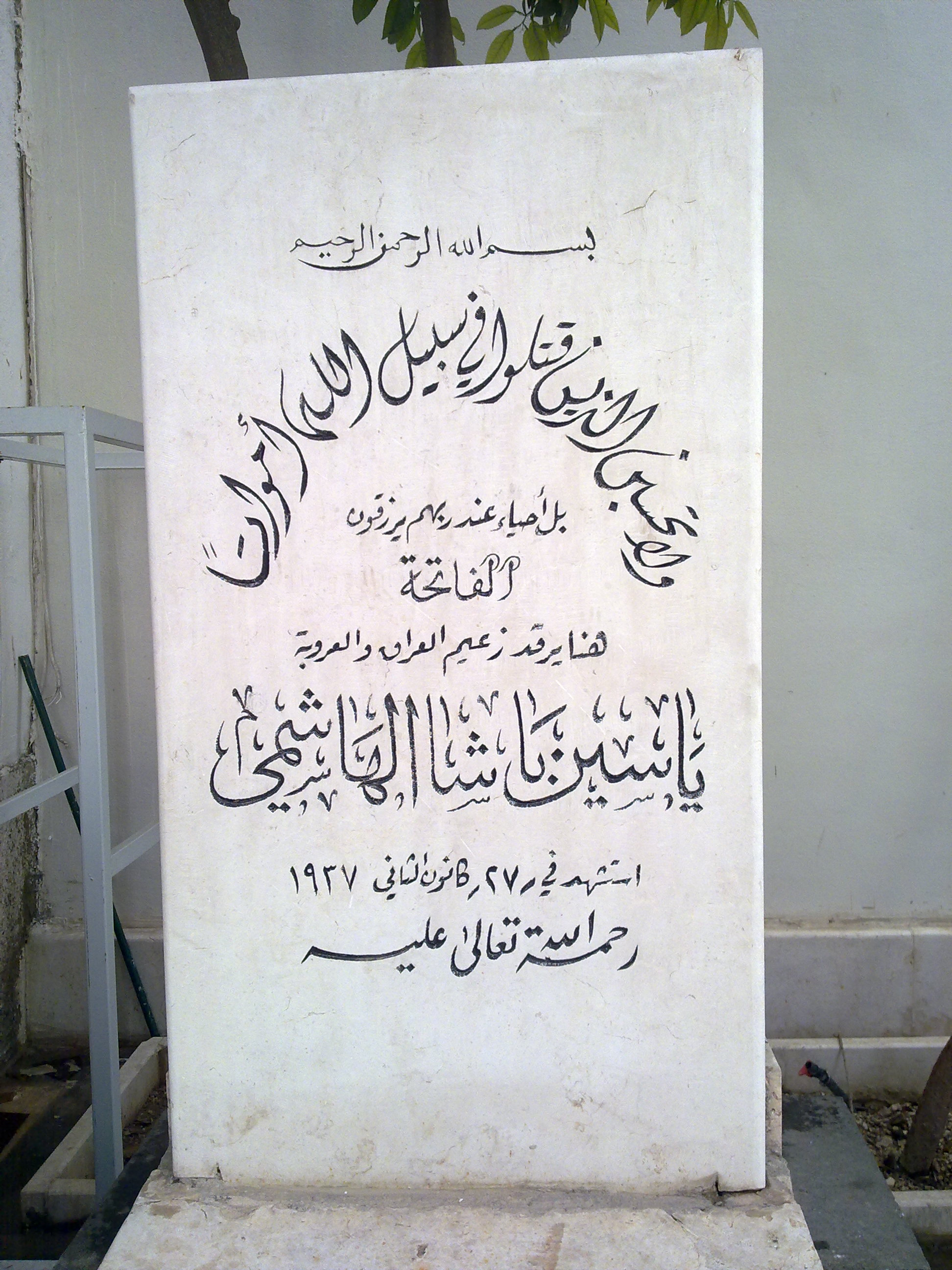 an Iraqi politician who served twice as the Prime Minister of Iraq.